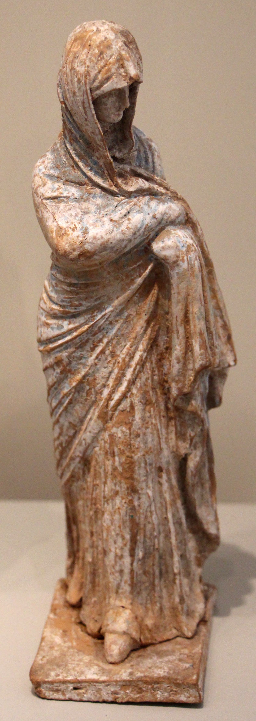 Ancient Greek terracotta in the Antikensammlung Berlin